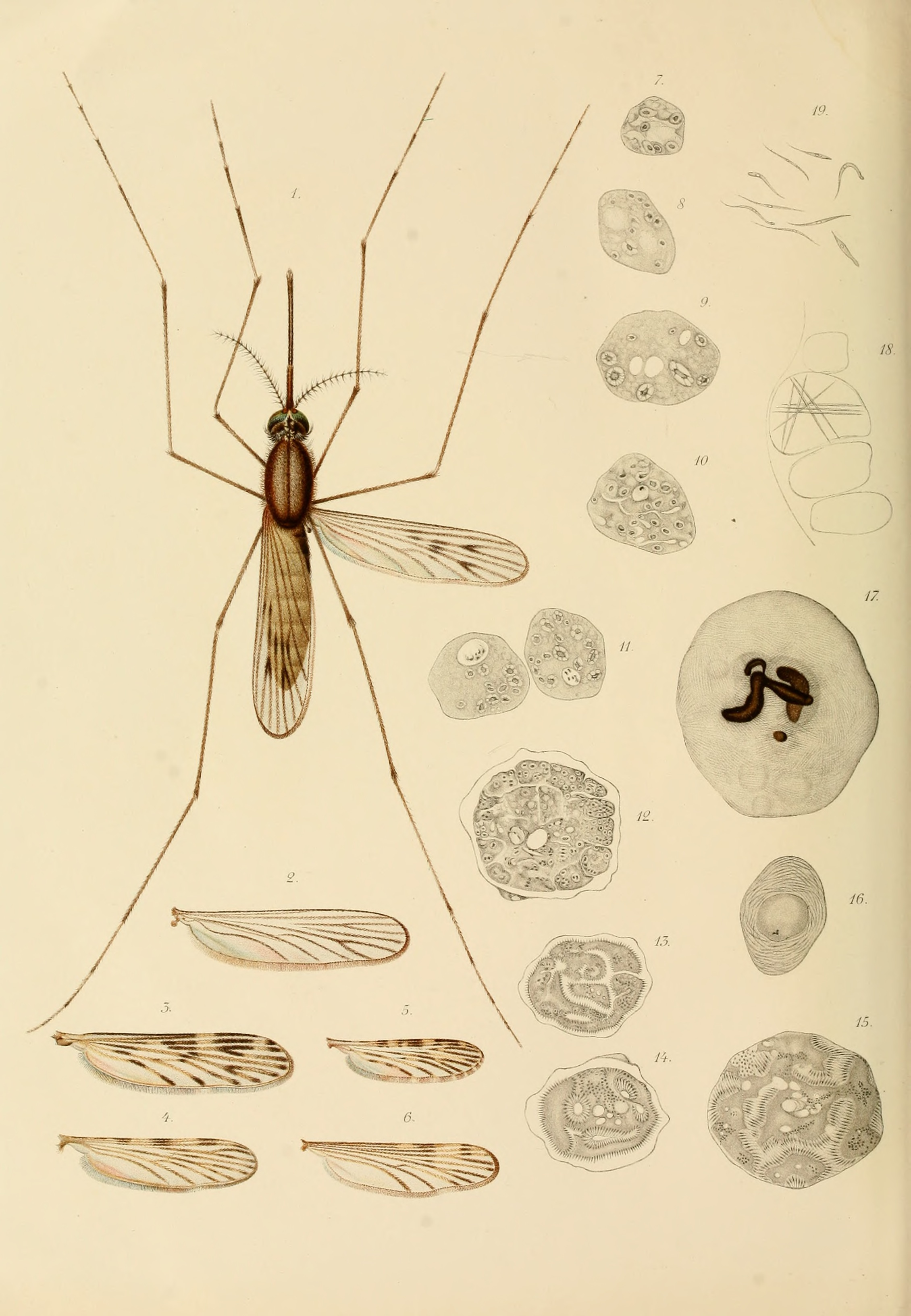 Plate 5 from Studi di uno zoologo sulla malaria by Giovanni Battista Grassi